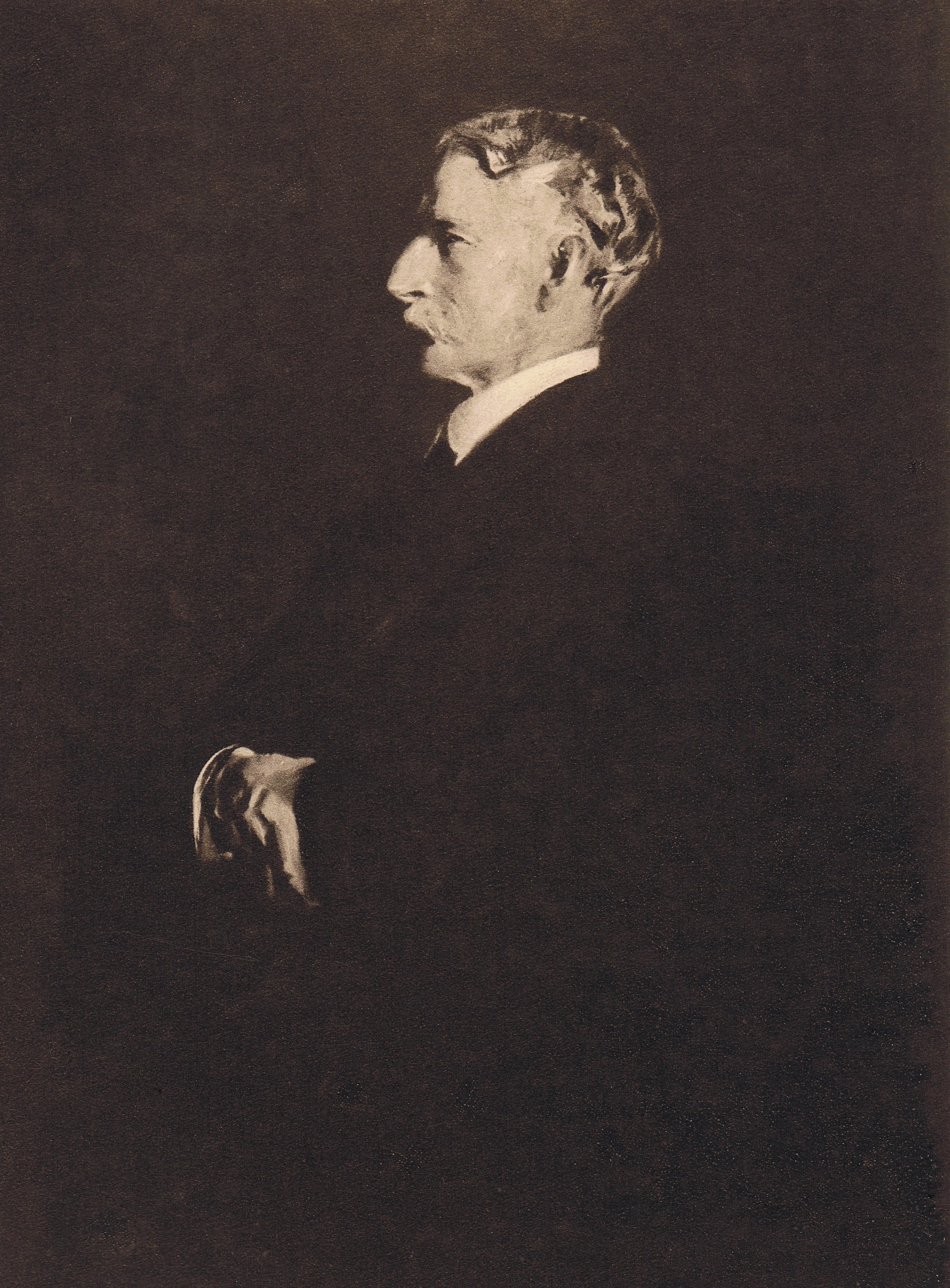 Scan of plate (cropped version) facing p. 176 from Men I Have Painted by John McLure Hamilton. A portrait of Edward Hornor Coates by Mr. Hamilton. From a portrait made at Murestead. The portrait was exhibited at the 1913 Annual Exhibition of the Pennsylvania Academy of the Fine Arts.[1]